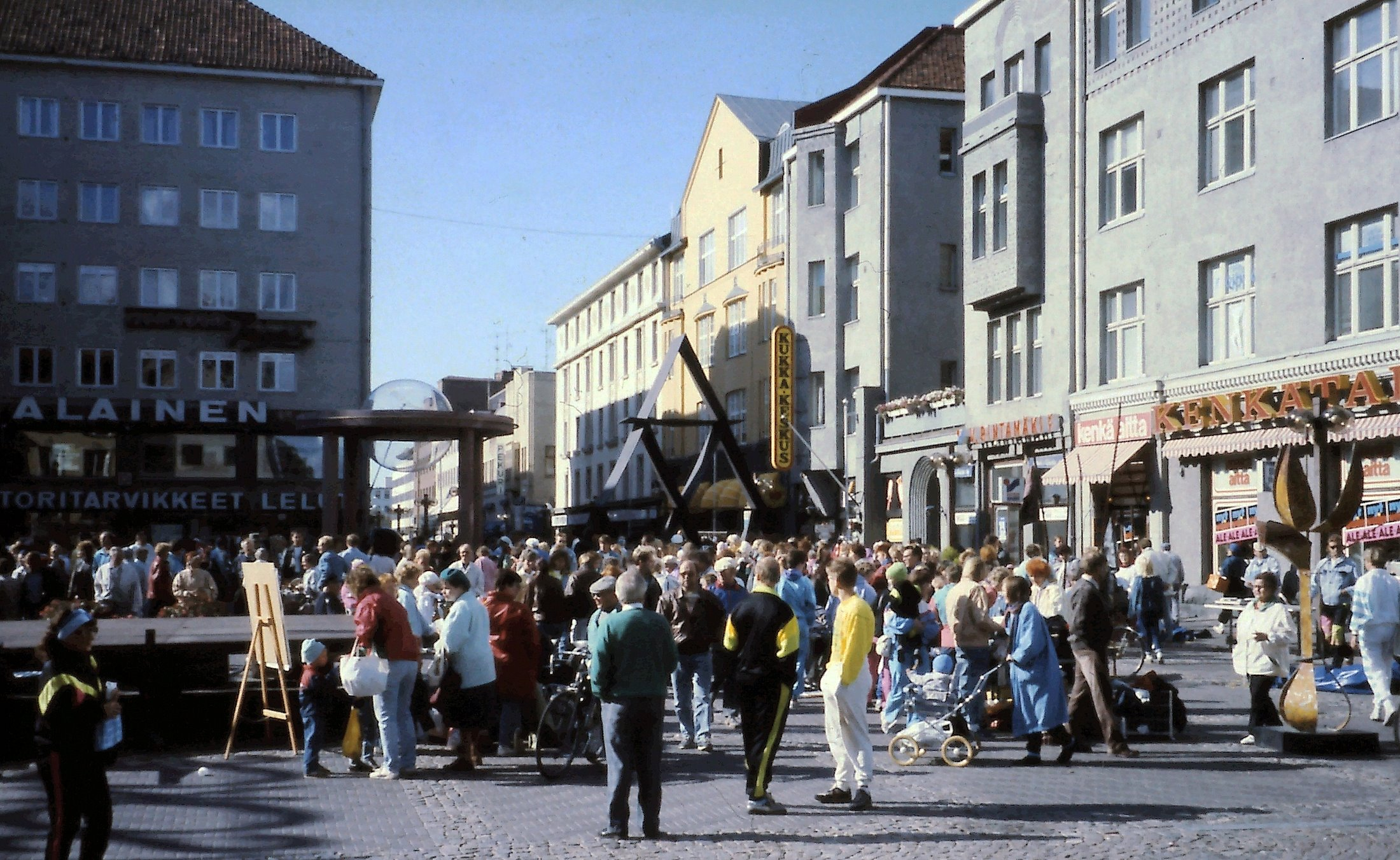 Oulu Central Square in summer 1989